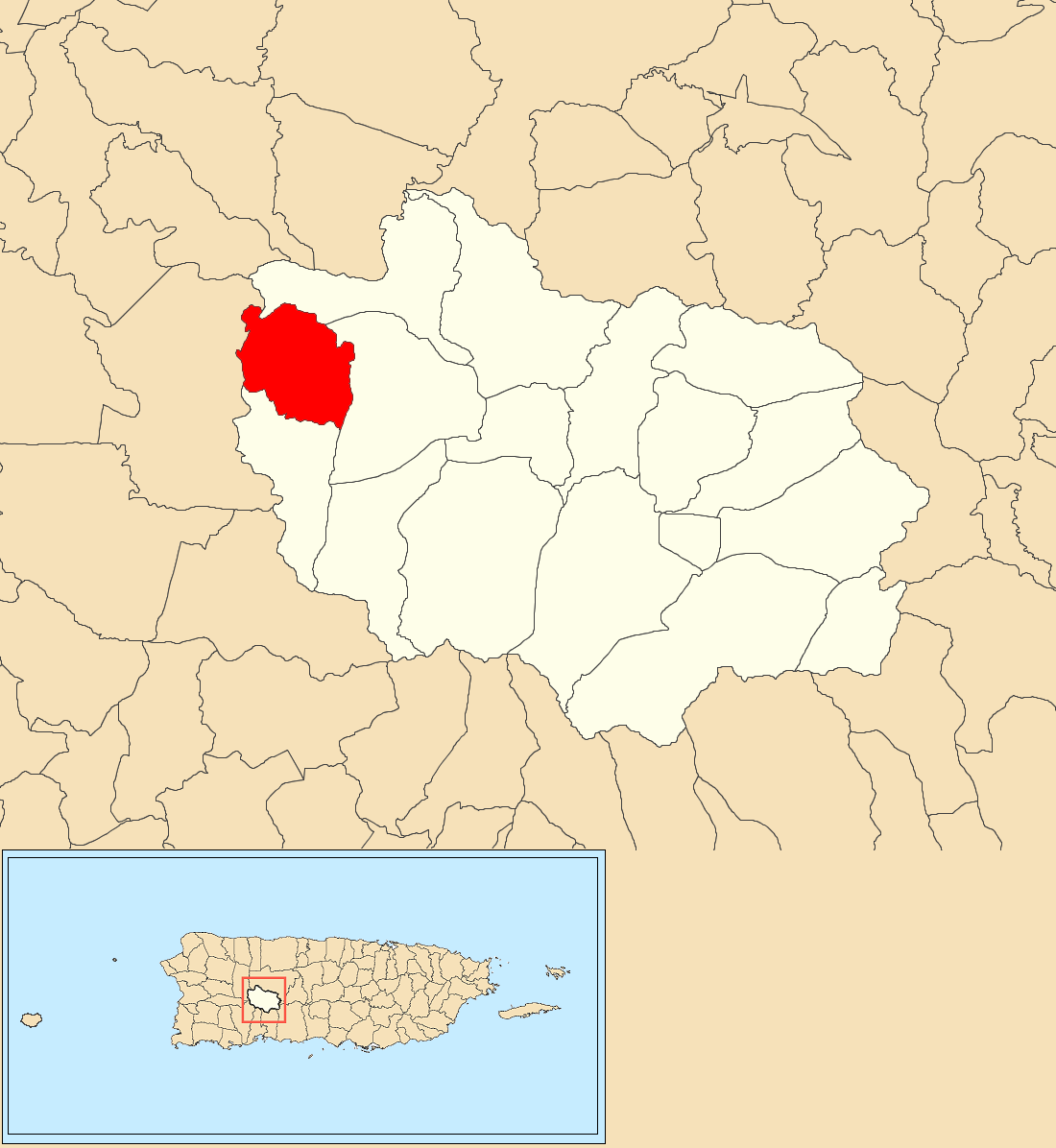 Guayabo Dulce, Adjuntas, Puerto Rico locator map